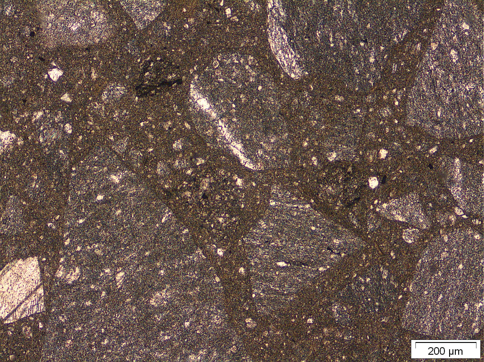 View of a cataclasite under an optical microscope in normal polarized light. Rock is from a landslide at Engelberg, Switzerland, from the Malm formation of the Helvetic nappes